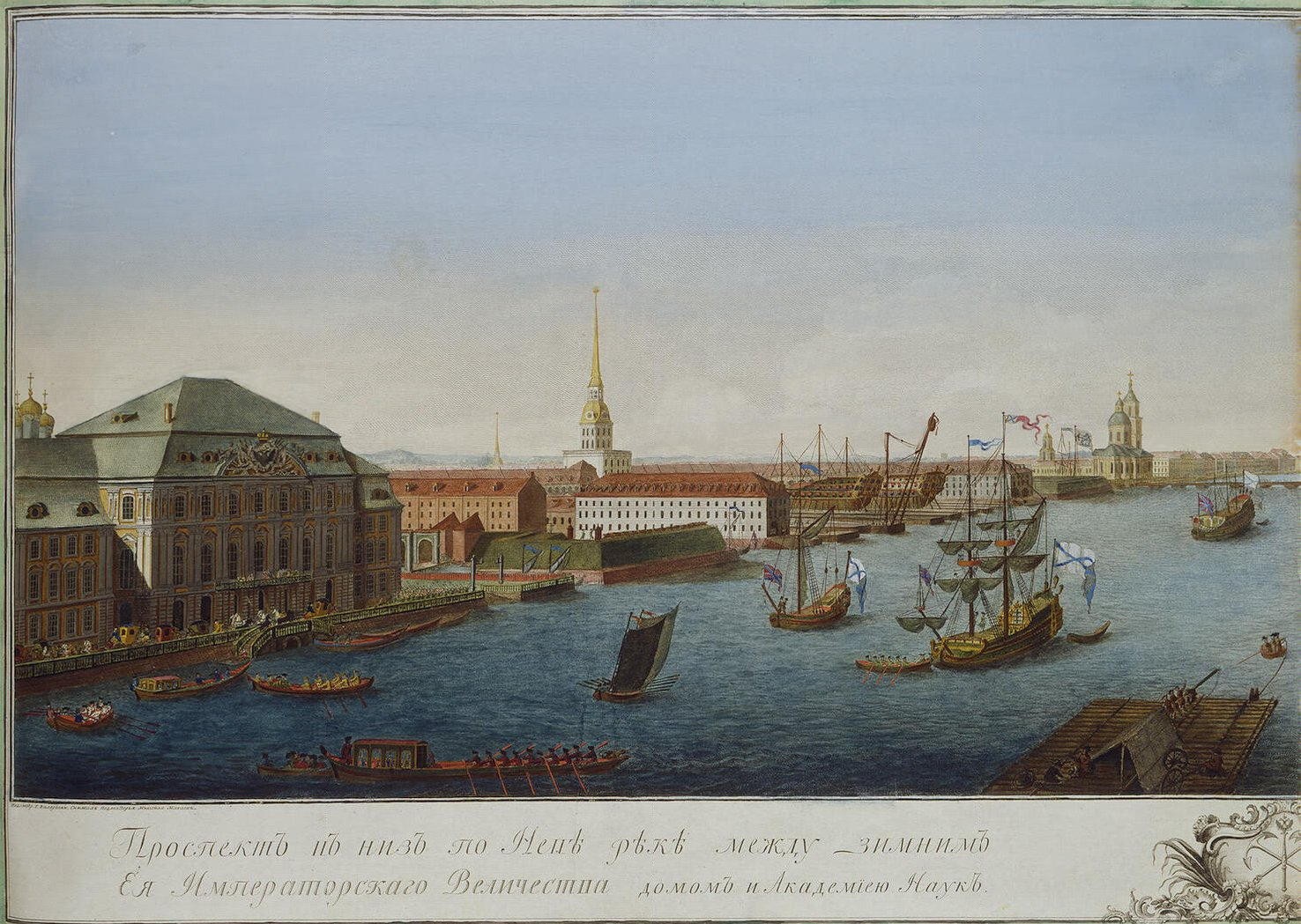 «View of the Neva Downstream between the Winter Palace and the Academy of Sciences». Left part.